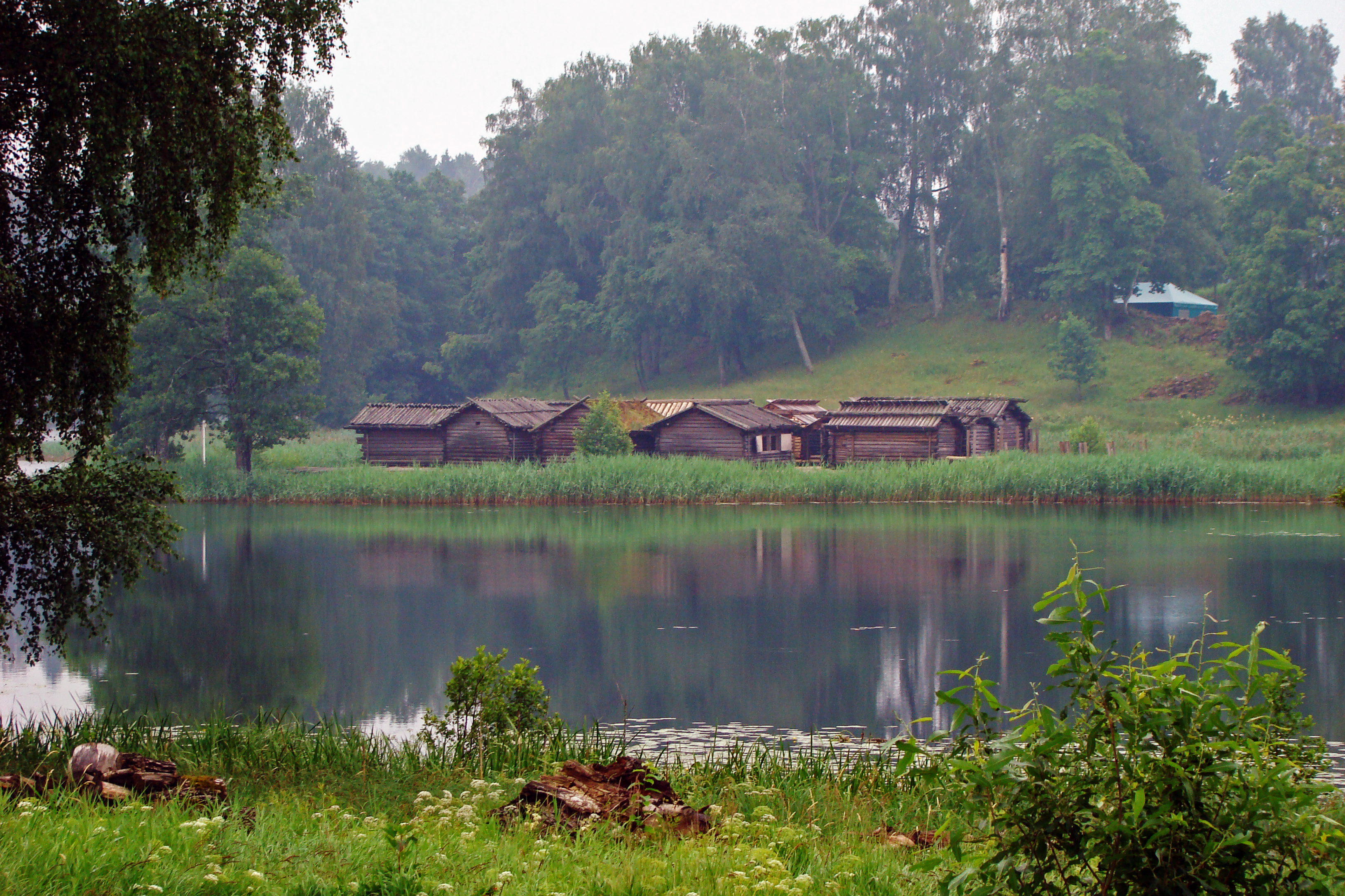 Āraiši lake dwelling site, Latvia.